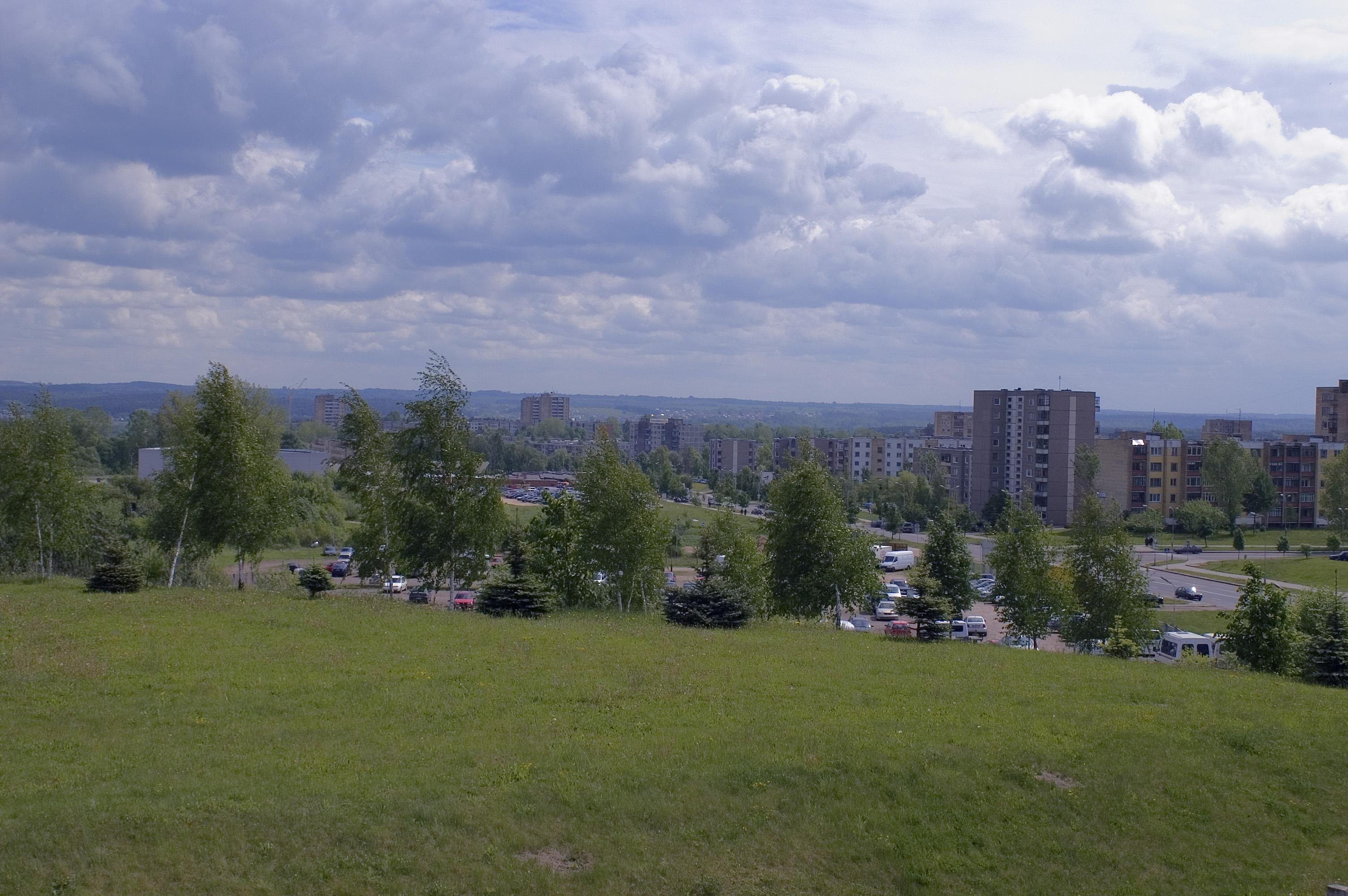 Panorama of Alytus town